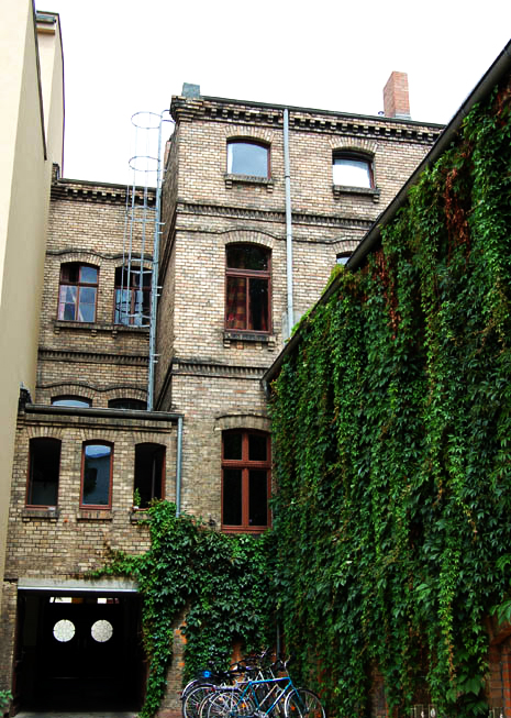 Residence of the Wingolf in Halle (Saale) (backside).